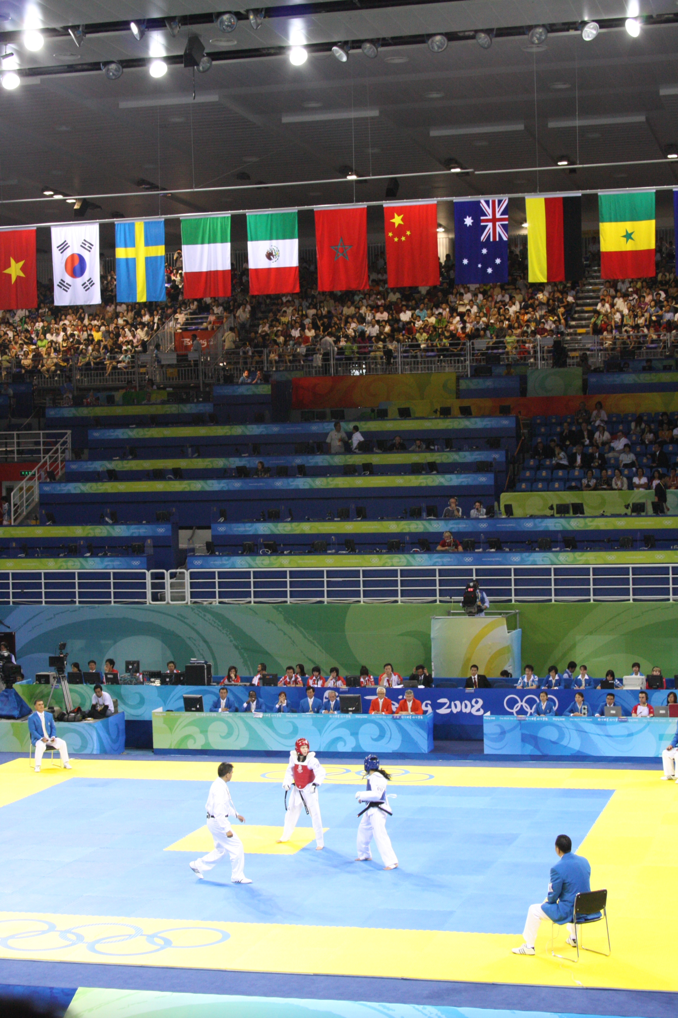 2008 Summer Olympics Taekwondo - Hanna Zajc (SWE, blue) v. Ivett Gonda (CAN, red)